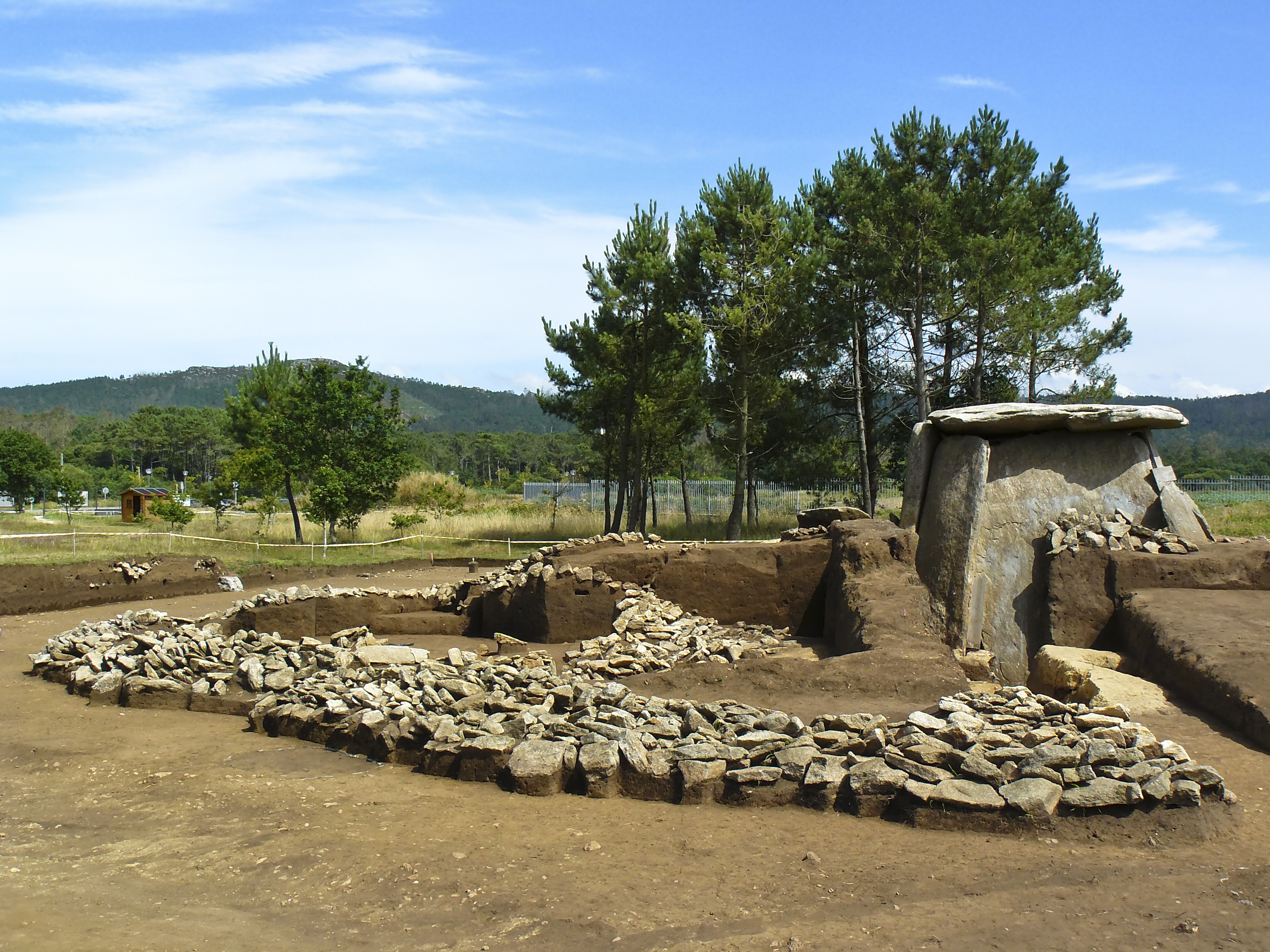 Dolmen of Dombate - Cabana de Bergantiños - A Coruña - Galicia - Spain(excavations in 2009)